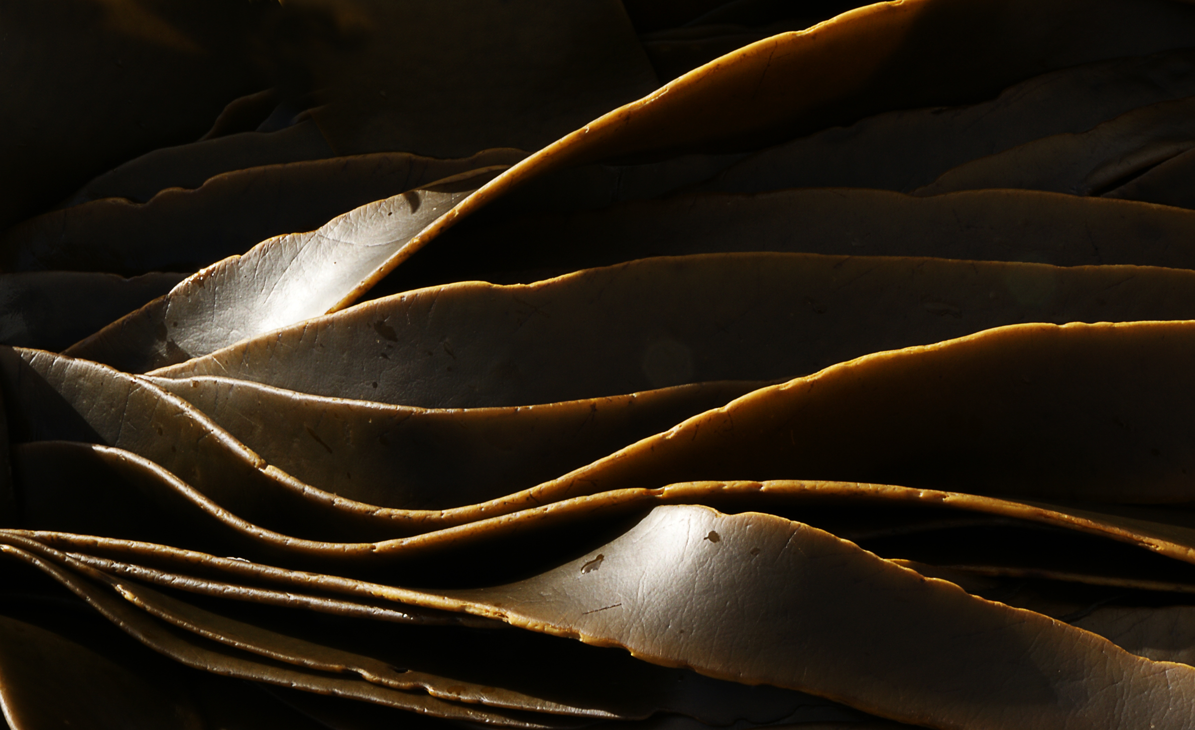 Kelp is a type of marine algae, or seaweed. Seaweeds come in three different color varieties, red, green and brown. Kelp is a kind of brown seaweed that grows to be very large. Although kelp resembles a kind of weed or tree, it is quite different from plants that grow on land. First of all, kelp has no roots. Kelp does have a way to anchor itself to the bottom of the ocean floor, but this anchoring system, called the holdfast, does not take in nutrients like plant roots do. The other parts of the kelp also have different names. The "leaves" of a kelp plant are called blades and the "stem" is called the stipe.